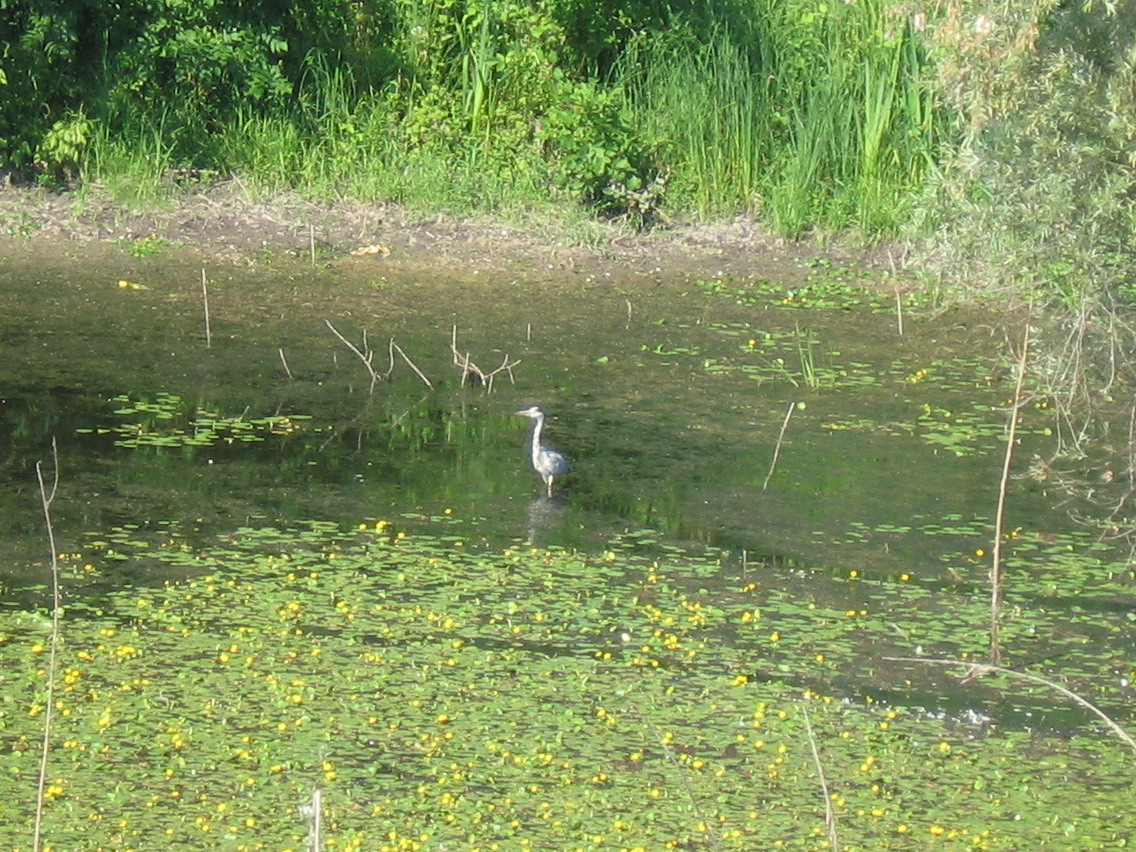 Heron in nature park "Tikvara", Backa Palanka